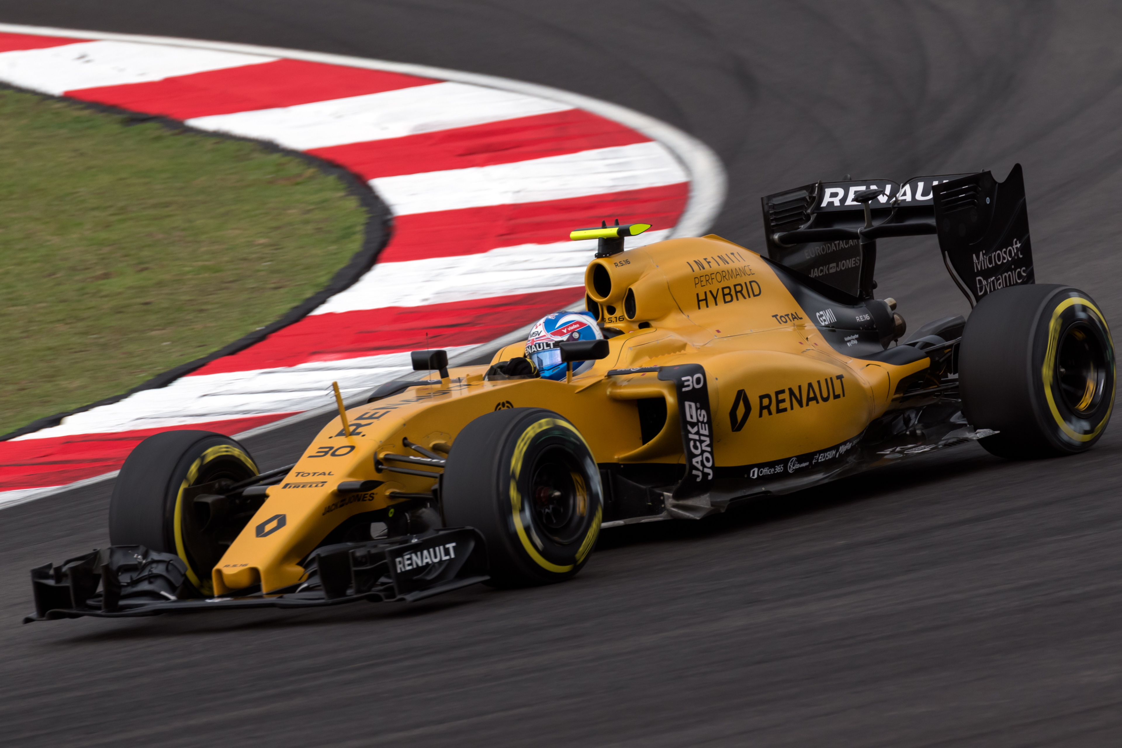 Formula One 2016 Rd.16 Malaysian GP: Jolyon Palmer (Renault)